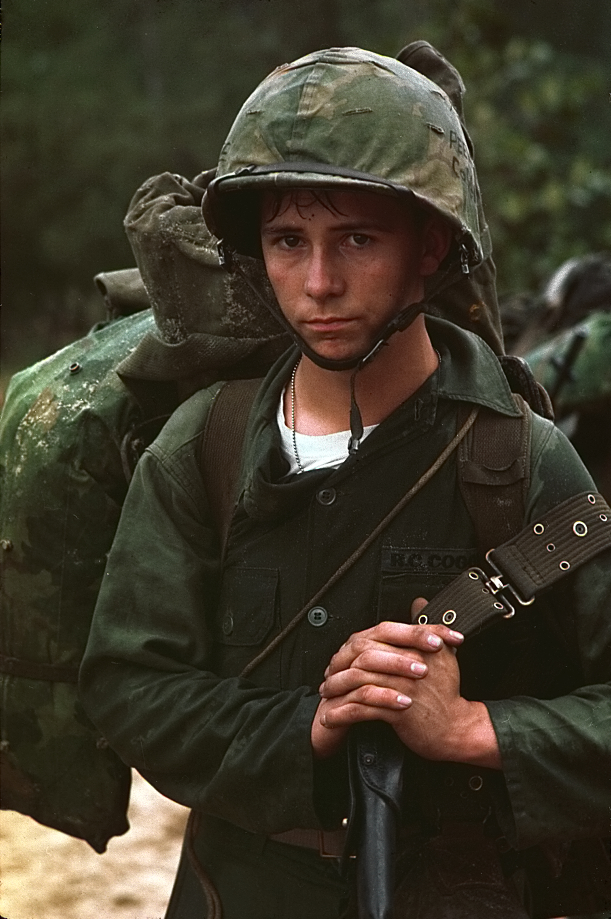 Da Nang, Vietnam. A young Marine private waits on the beach during the Marine landing.